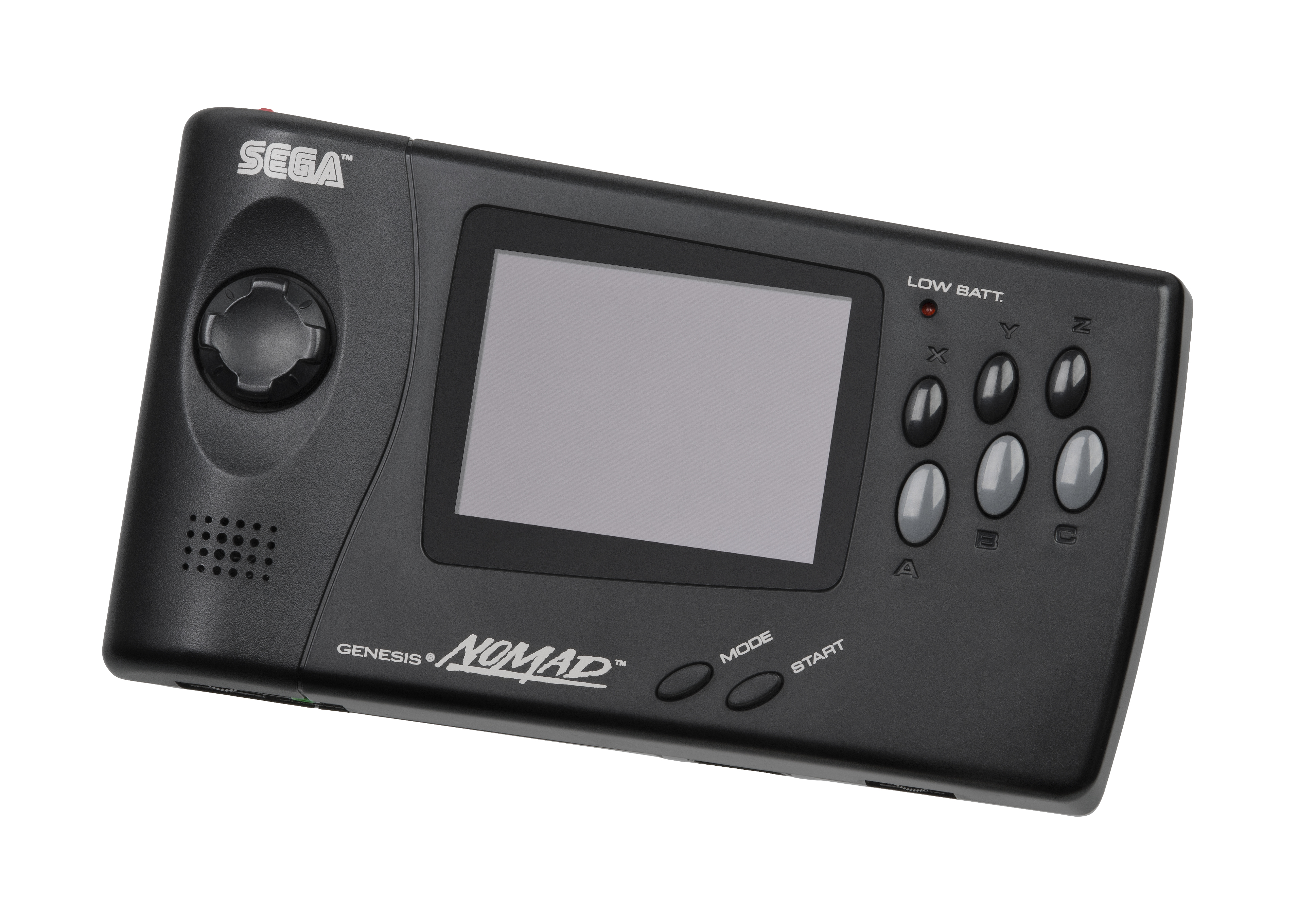 The Sega Nomad, a portable version of the Sega Genesis video game console that was released in exclusively in North America in 1995.